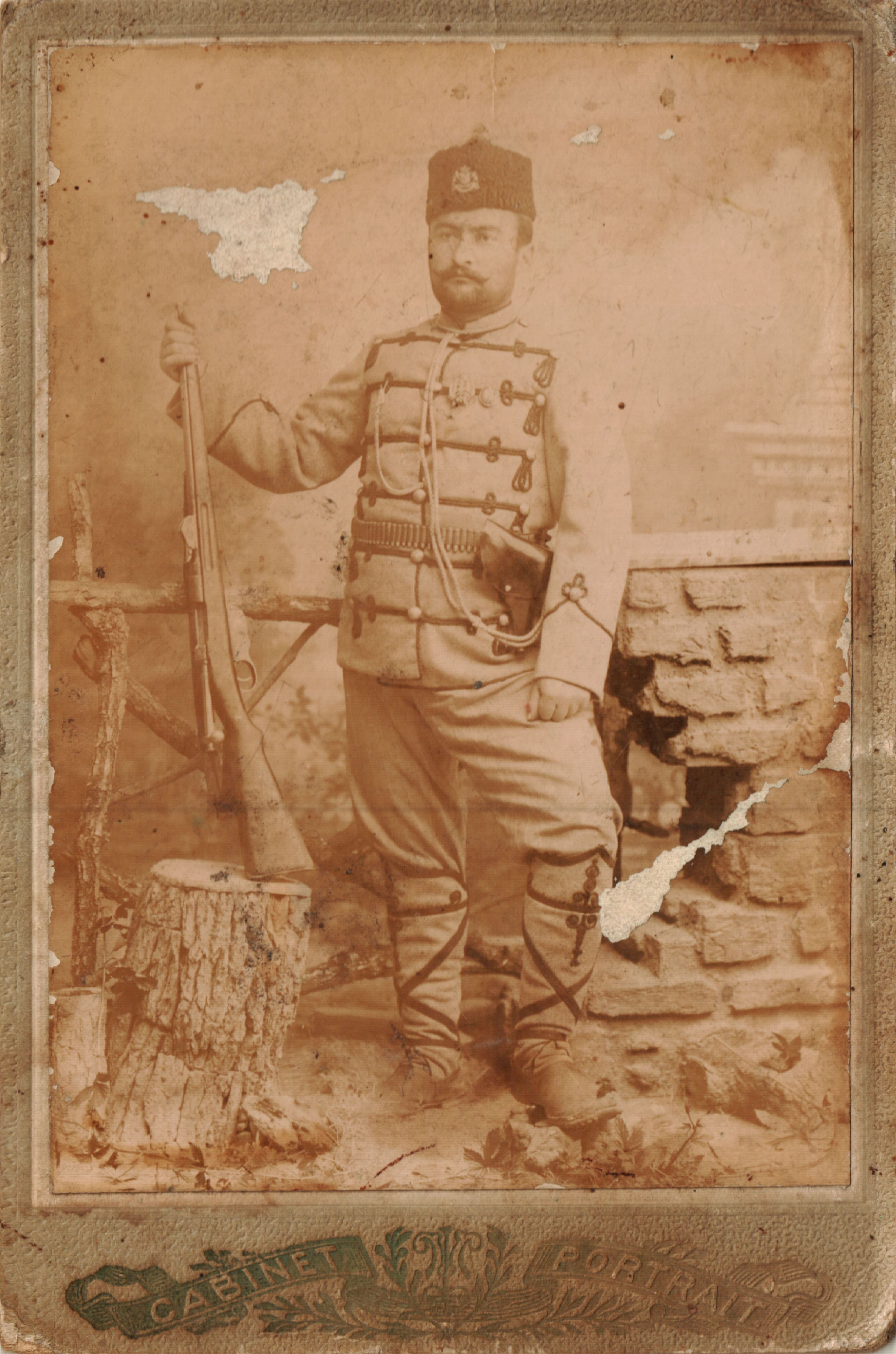 G. D. Ikonomov